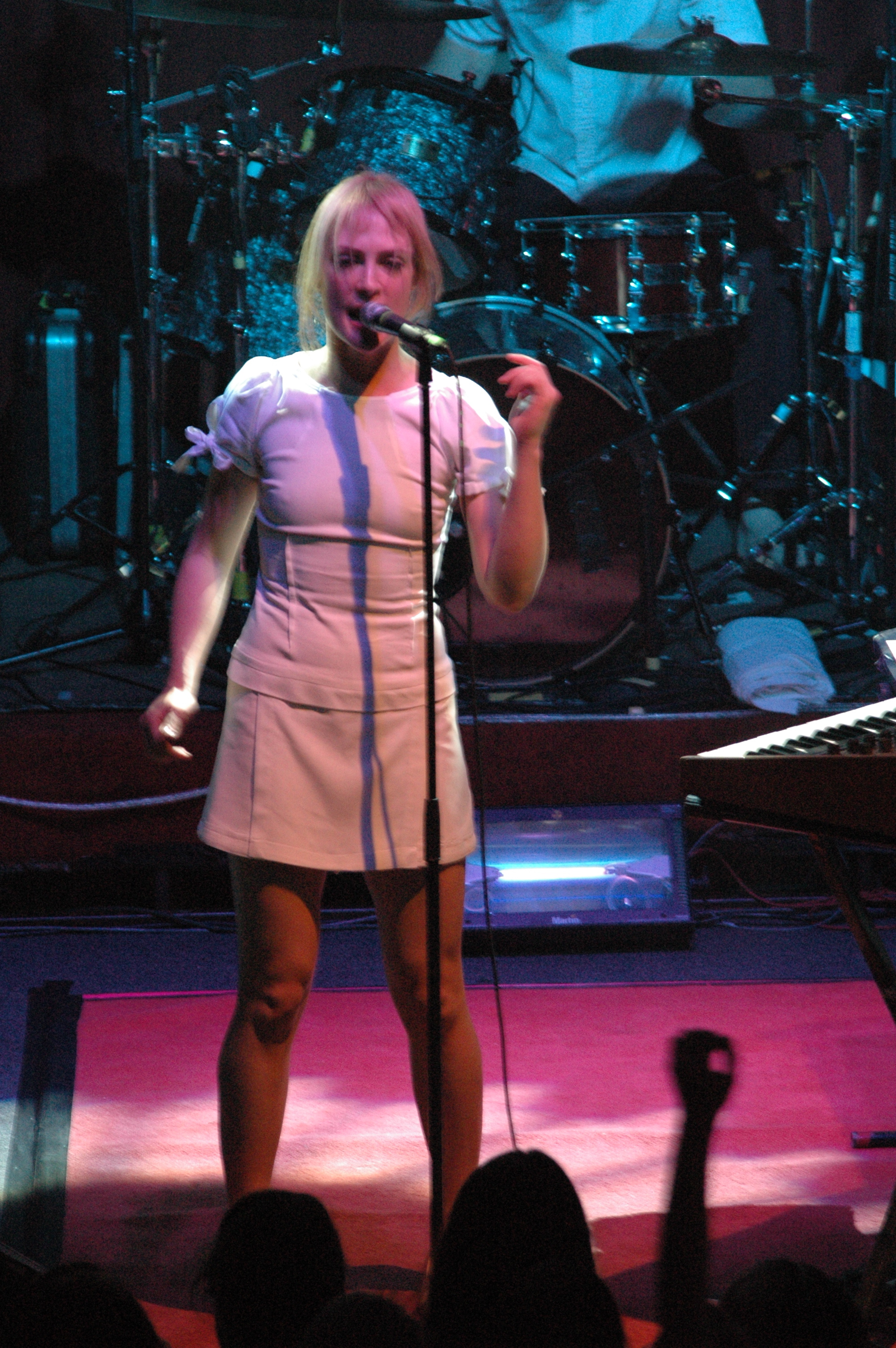 You know how hard it is to get a 200mm lense stable in a rock club without a monopod? Thank heaven for burst mode.